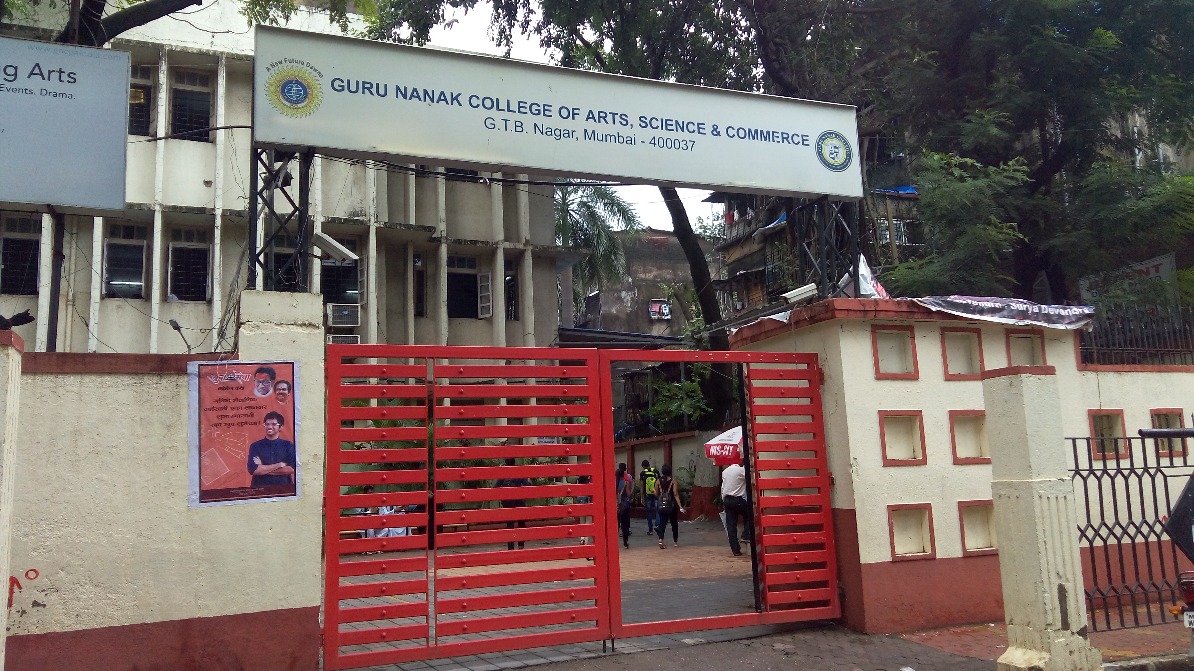 Gurunanak College is a college situated in Guru Tegh Bahadur Nagar of Mumbai, India